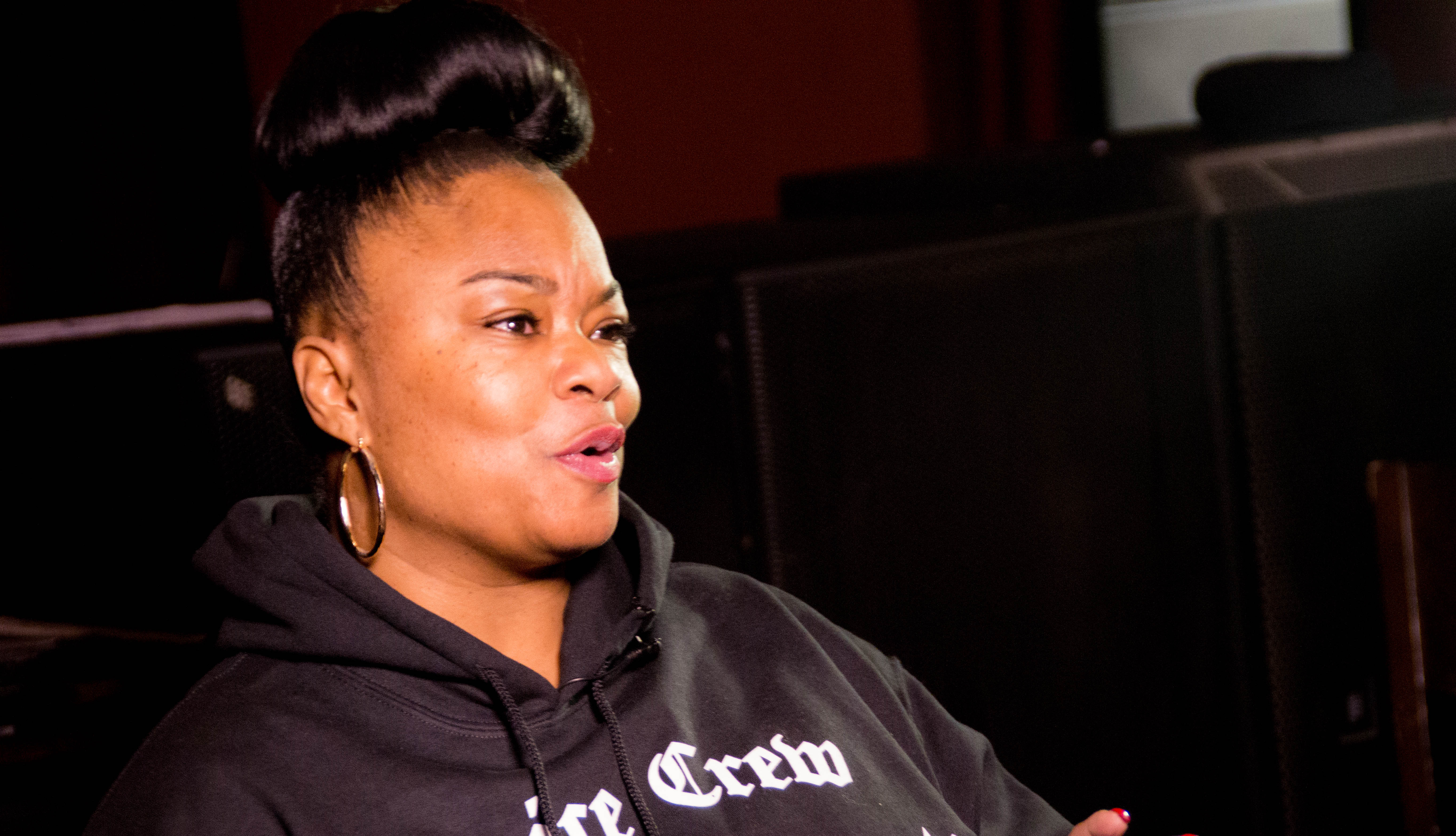 Roxanne Shante at 2016 Juice Crew Reunion (BB Kings NYC)